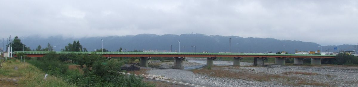 Azusa Bridge